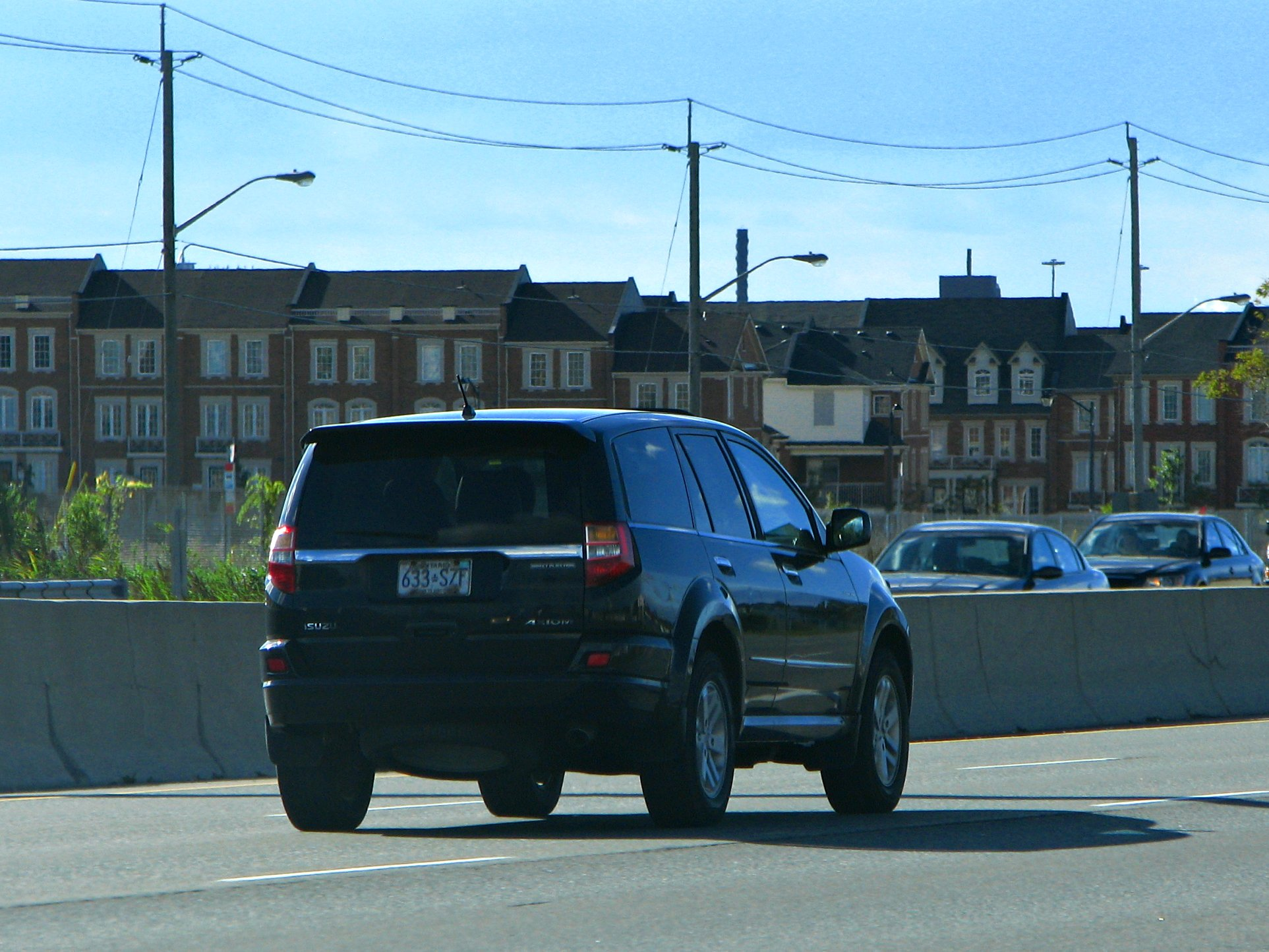 Never sold here in Canada. An imported SUV from the US!